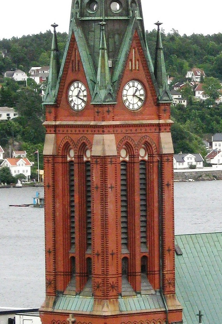 Arendal Trefoldighetskirke (church) in Arendal